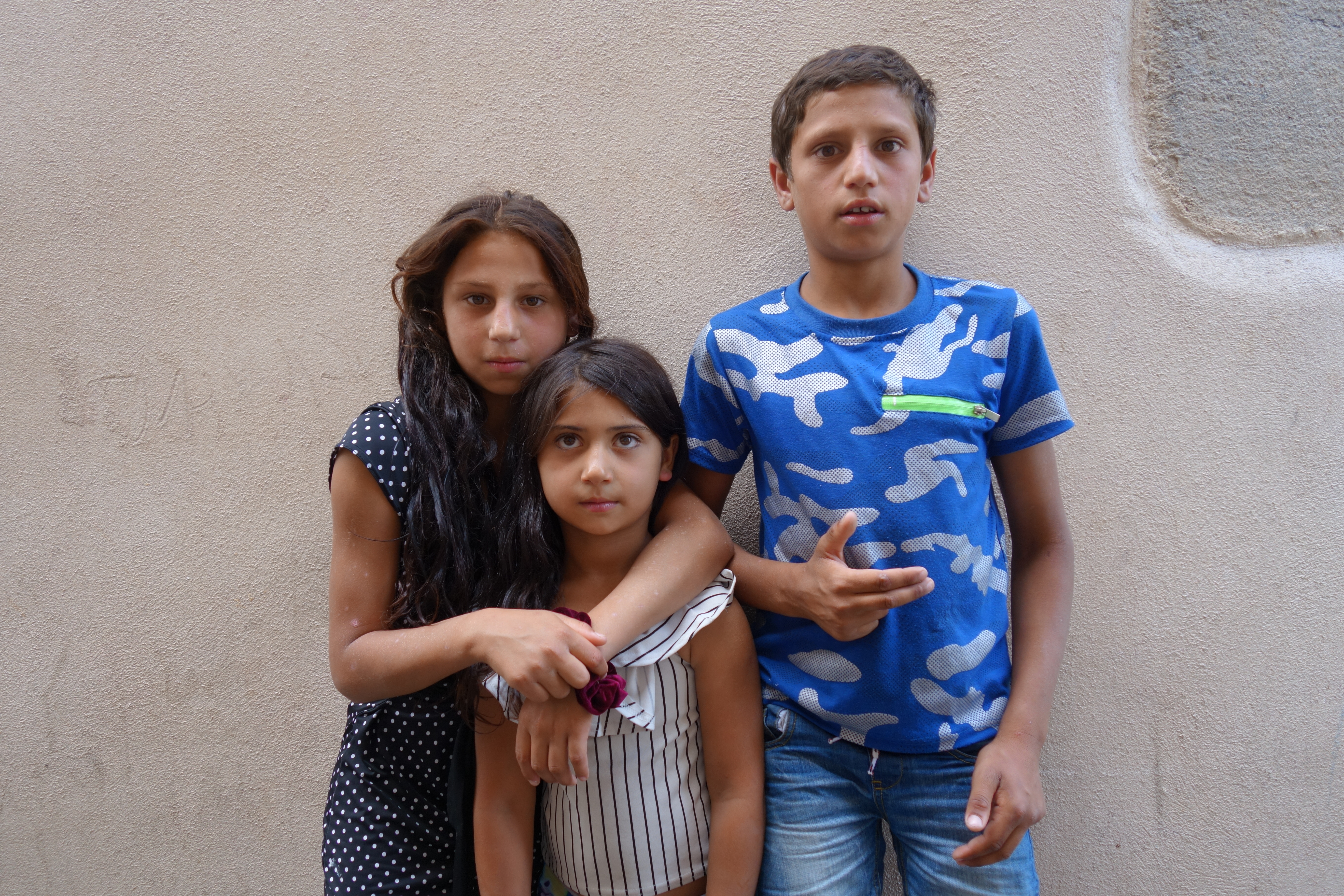 Romani children modelling in Saint-Étienne, France.